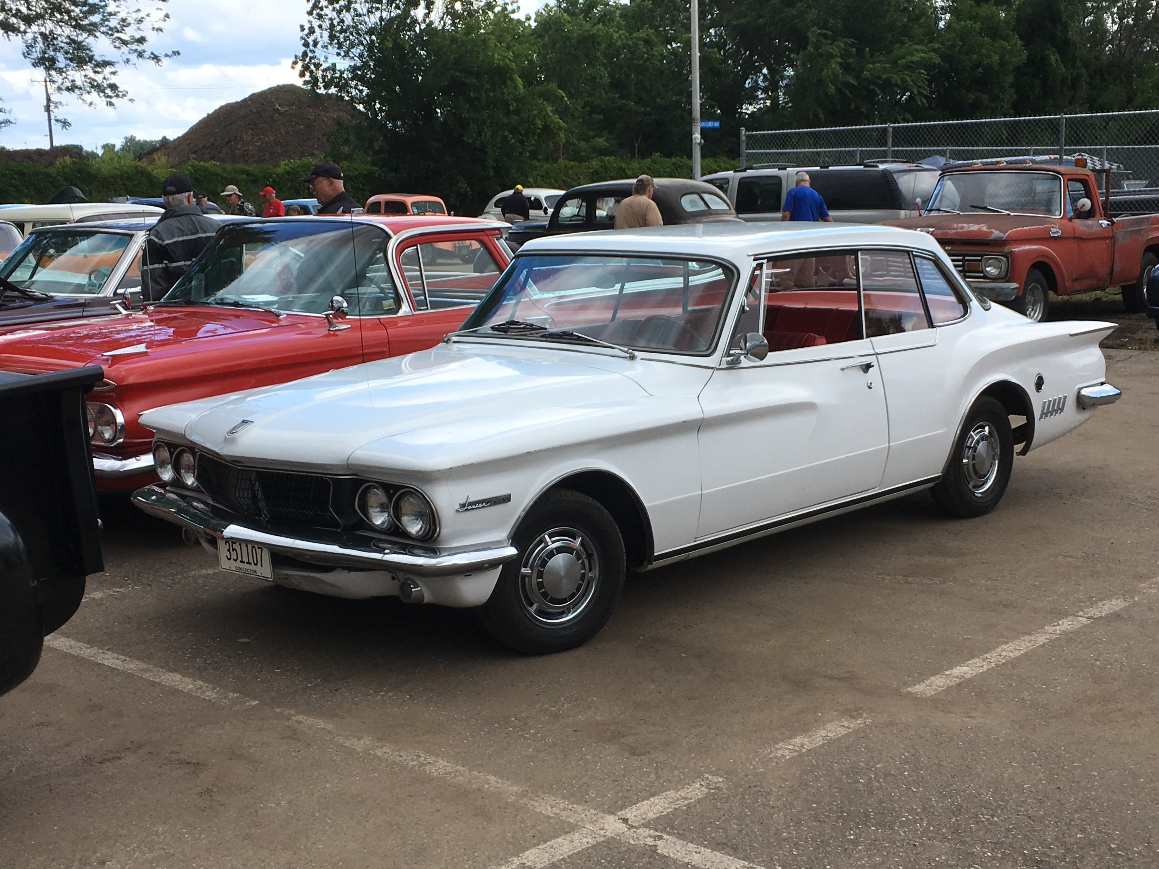 I had two rechargeable camera batteries with me for the MSRA excursion, Friday & Saturday I used up both of them and one of them on Sunday. I resorted to using my phone camera to capture images on my trips back to the parking lot to swiap batteries. I only had one charger, so I had to wake up at 1 a.m. to switch out the battery in the charger, to get both ready for the next day. Minnesota Street Rod Association (MSRA) “BACK TO THE 50′s” 44th Annual Car Show June 23-25, 2017 Minnesota State Fairgrounds St. Paul Minnesota Click here for previous "Back to the 50's" pictures.. Click here for more car pictures at my Flickr site. Or here for my Car Crazy Tumblr site. Or on Twitter @DVS1mn.